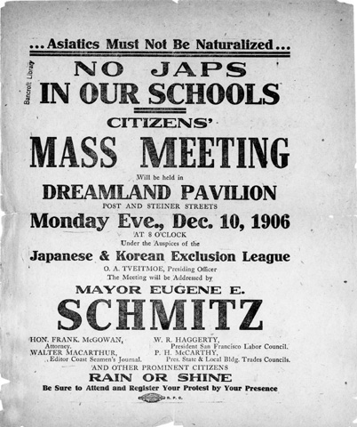 A poster issued by the Japanese and Korean Exclusion League, relating to the school segregation of Japanese Americans in San Francisco, California